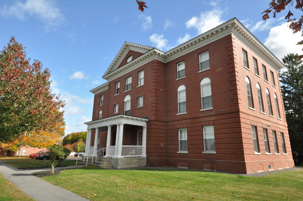 A residence hall in the State Reform School Historic District, South Portland, Maine